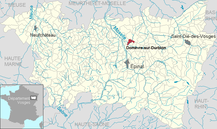 Domèvre-sur-Durbion in the department of Vosges, Lorraine, France